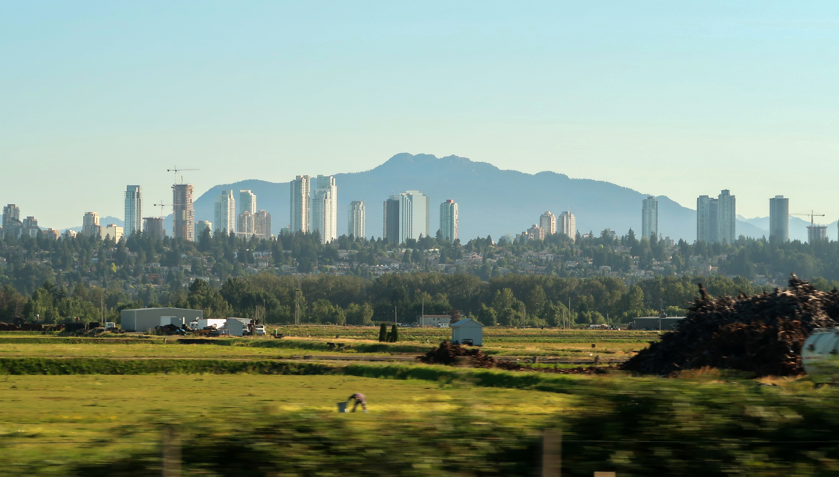 Metrotown, Burnaby